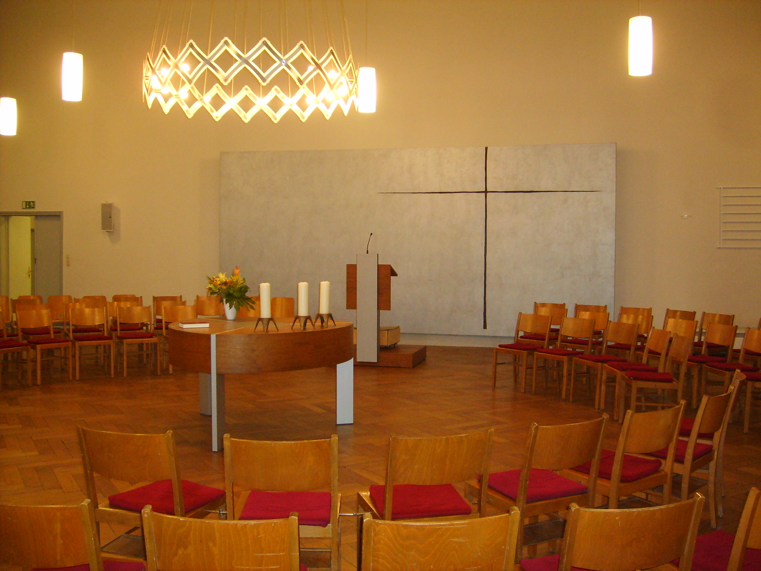 altar of the church Tersteegenhaus in Cologne, Germany